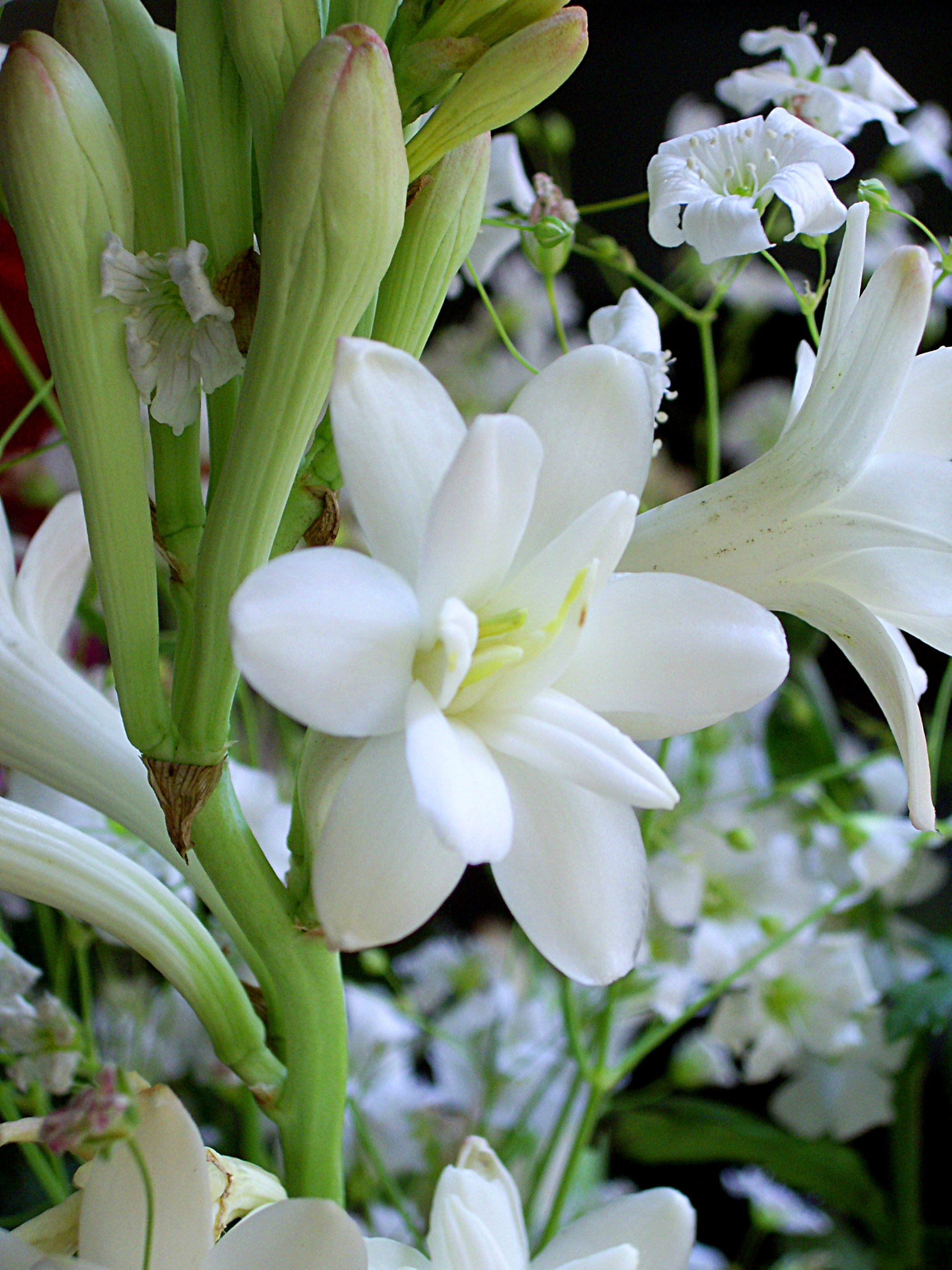 Lilium candidum